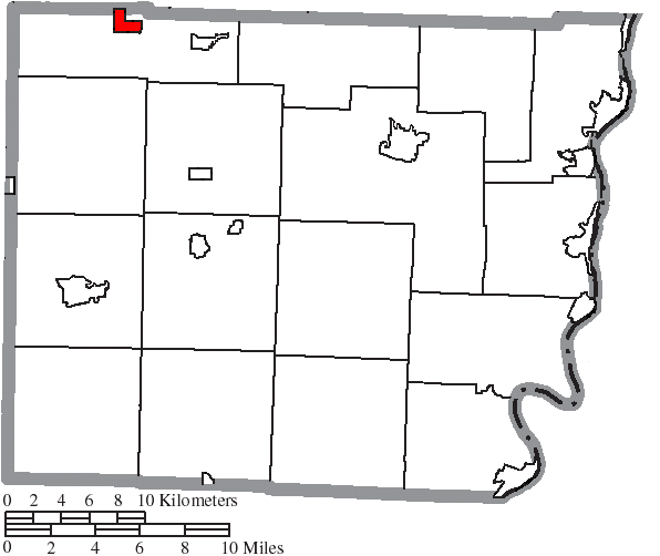 Map of the municipal and township boundaries of Belmont County, Ohio, United States, as of the 2000 census, with the location of the village of Holloway highlighted. Township borders are shown only in unincorporated areas in order to differentiate incorporated and unincorporated areas more clearly.